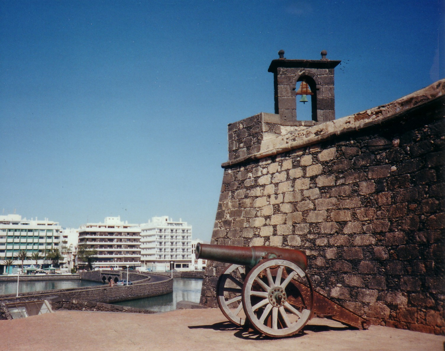 Castillo de San Gabriel in Arrecife, Lanzarote